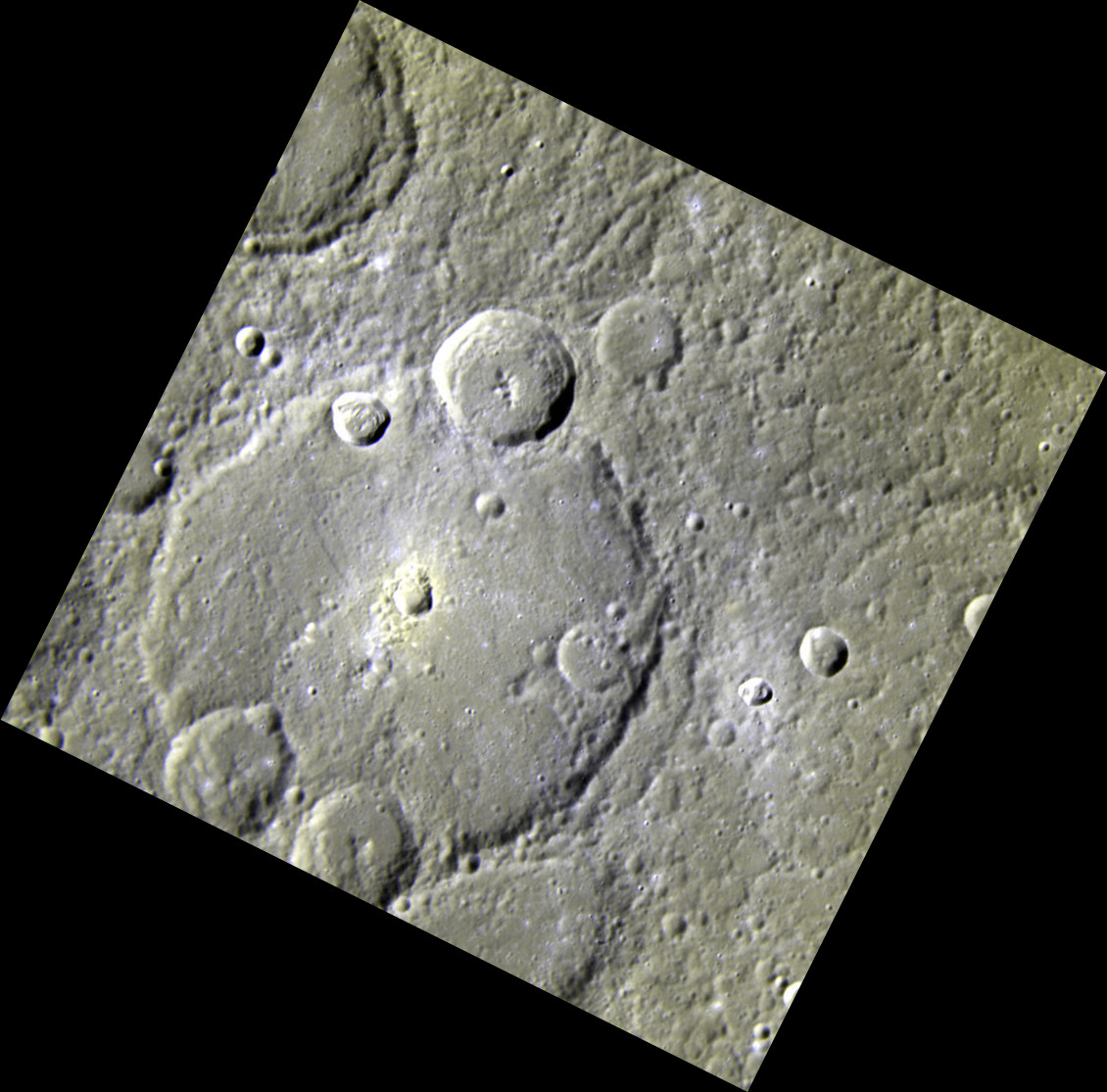 Mussorgskij crater on Mercury. Approximate color representation combining three images acquired by MESSENGER Wide Angle Camera (EW1006148309G, EW1006148313F, EW1006148317I) with I (996.2 nm), G (748.7 nm), and F (433.2 nm) filters. Combined in GIMP software as RGB (Red-Green-Blue), and then rotated so that north is up. Statistics for I image: Emission Angle: 0.2 Incidence Angle: 55.0 Latitude: 33.4 Longitude: 263.4 Phase Angle: 54.9